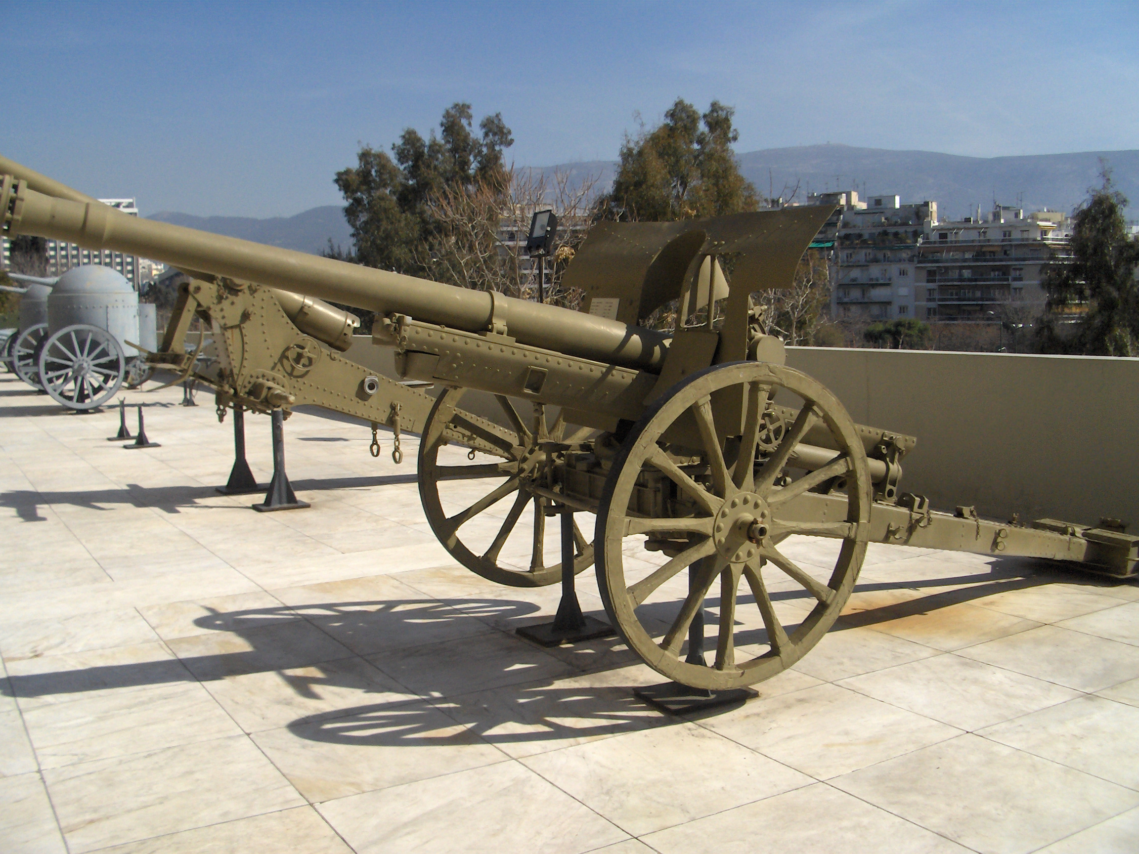 Exhibit at the War Museum in Athens. Schneider field gun